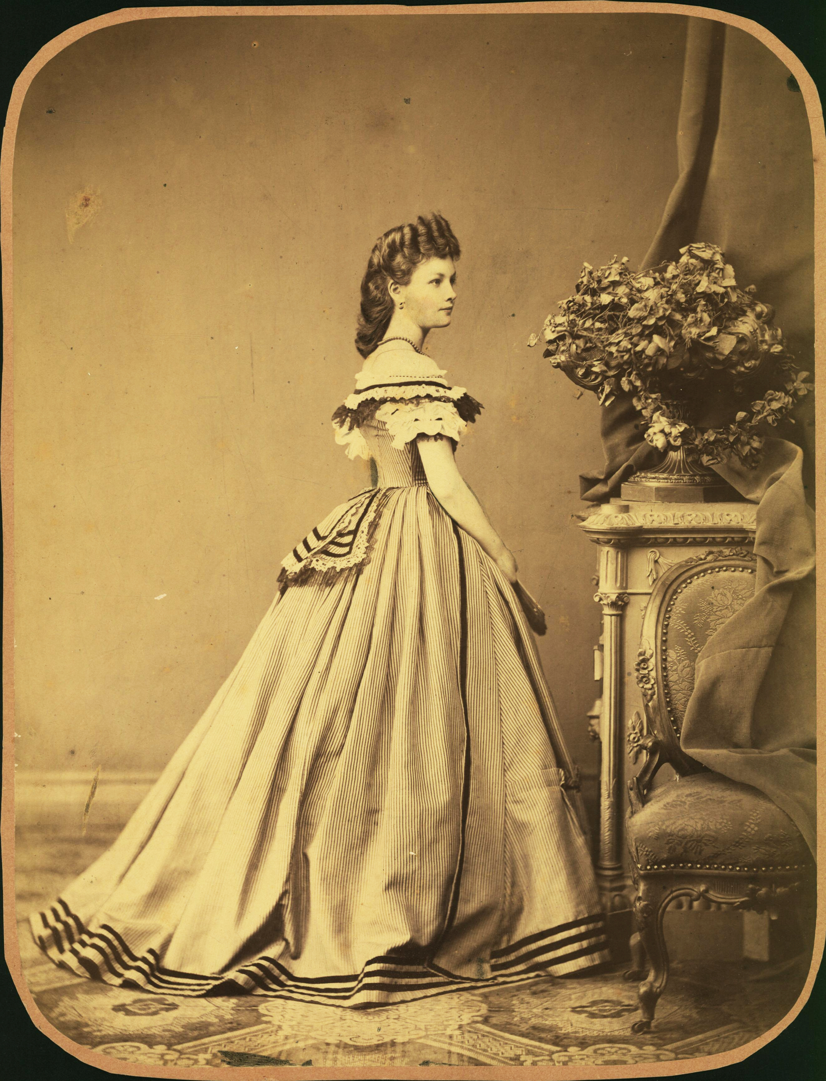 Görgei's daughter Berta in the 1860's